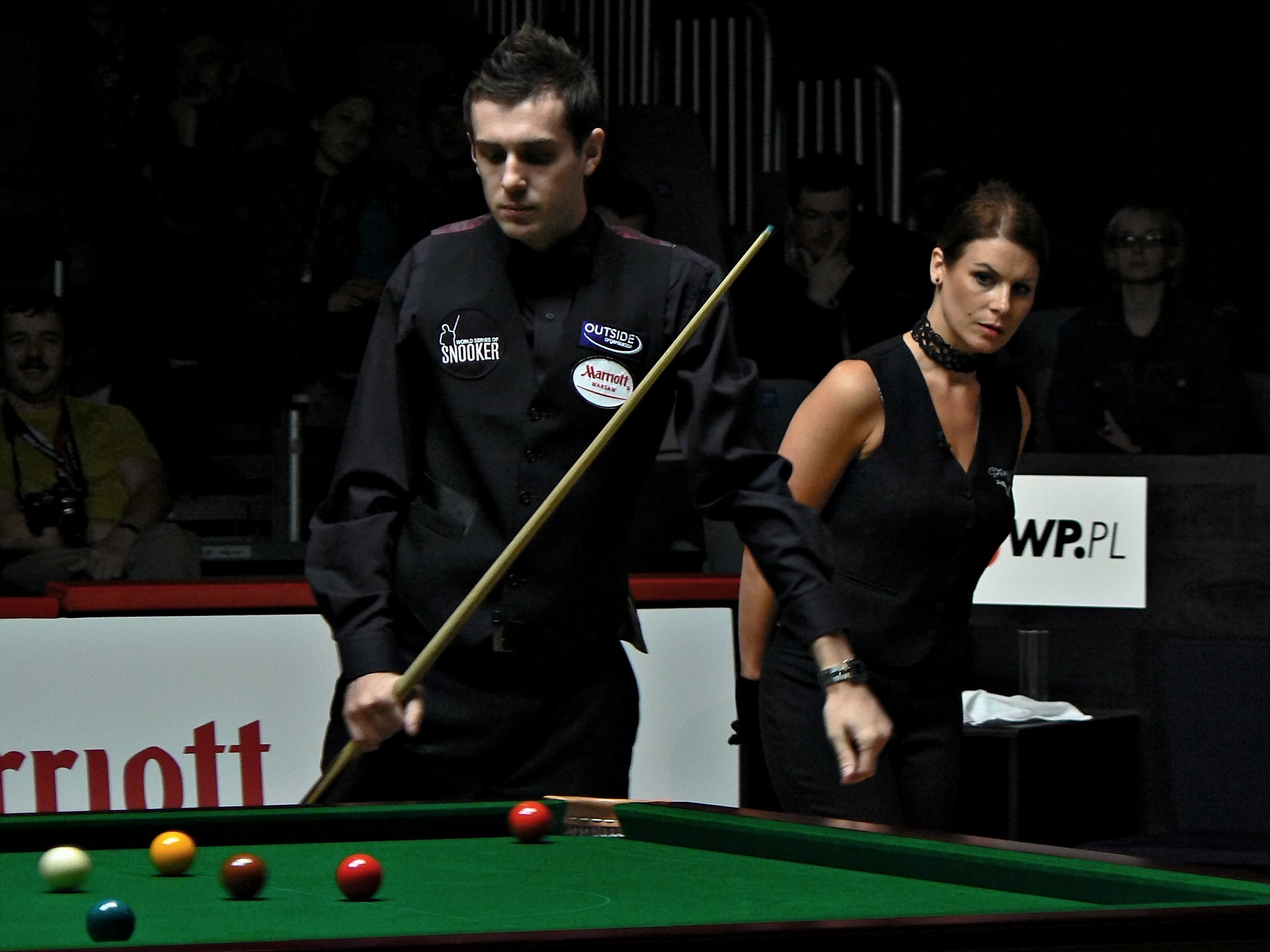 World Series of Snooker 2008 Warsaw - quarterfinal with Mariusz Sirko and Mark Selby. The game was judged by Micheala Tabb.